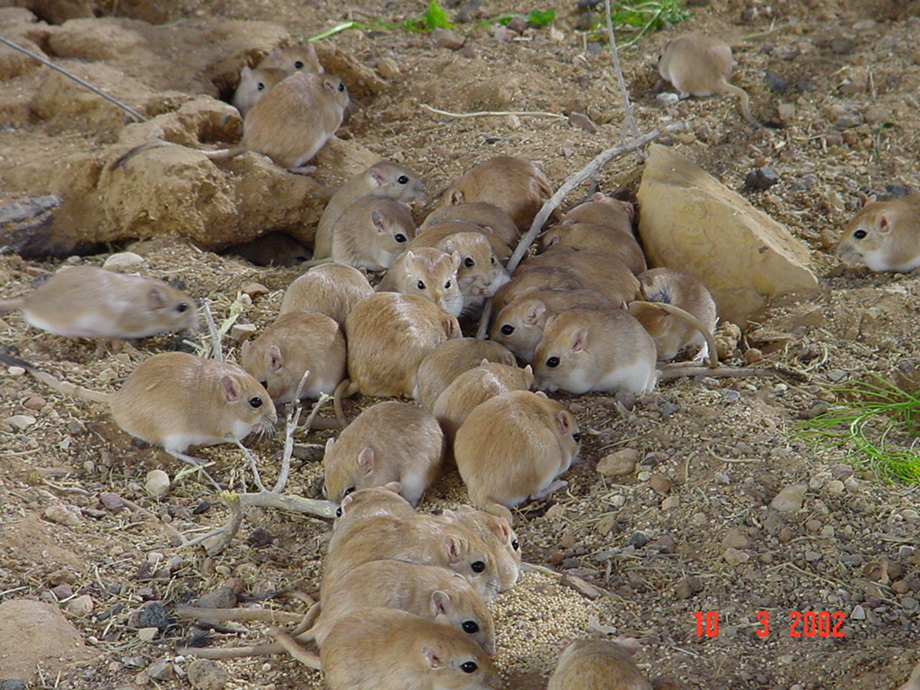 Sundevall's Jirds group; Ben-Gurion University, Israel